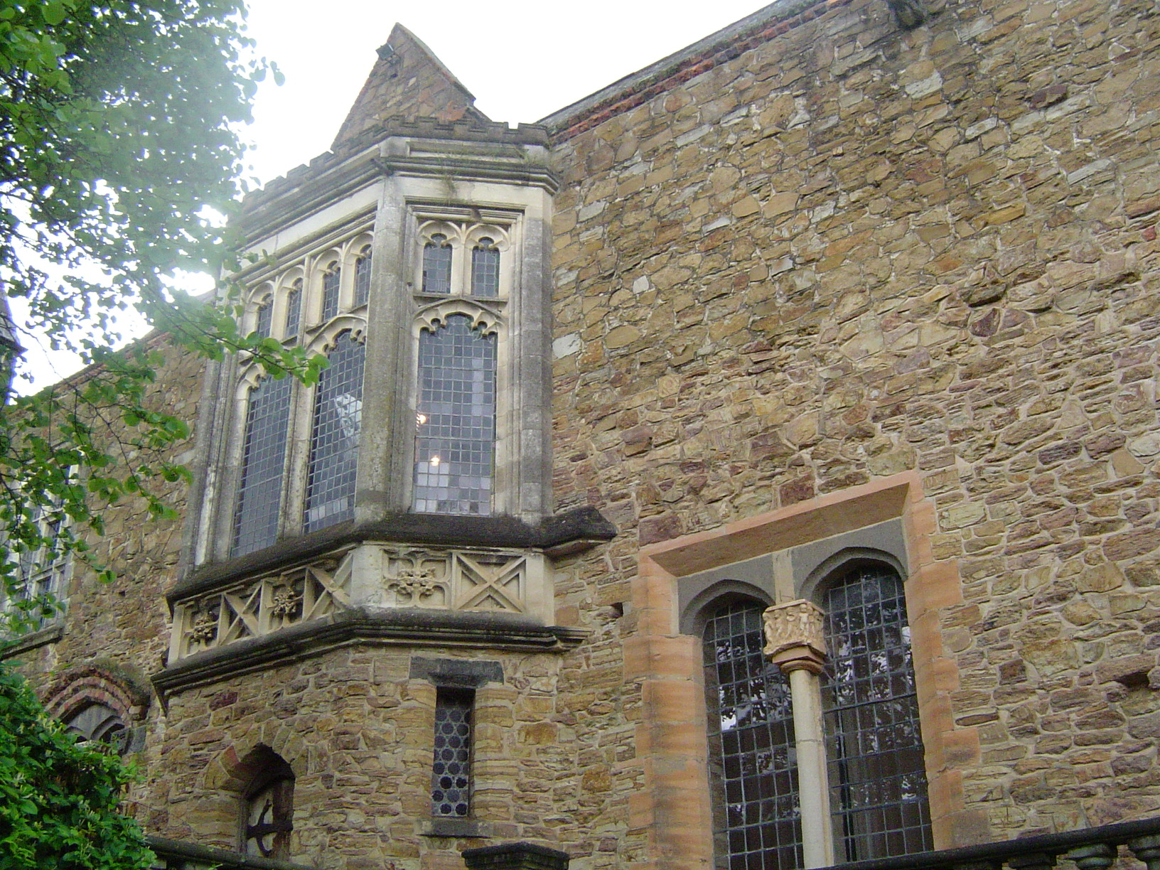 South side wall of The Great Hall at Montsalvat in 2004.